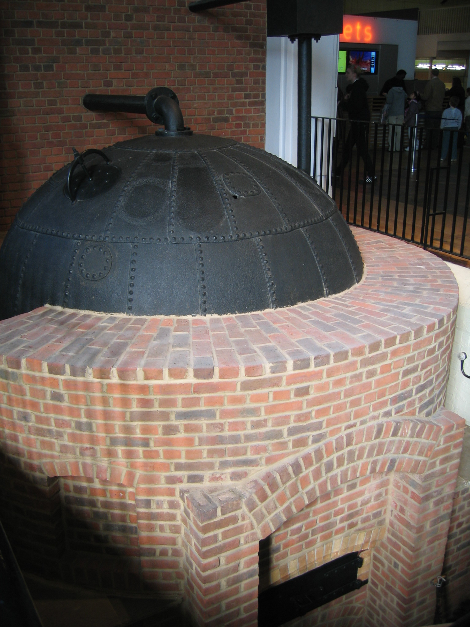 Haystack boiler From Basset Pit, near Derby, dating from around 1796. An 1885 photograph shows it still in use, serving a Newcomen engine. Later on it was used as a water tank on a nearby farm. In 1953 it was moved to the Science Museum, London.